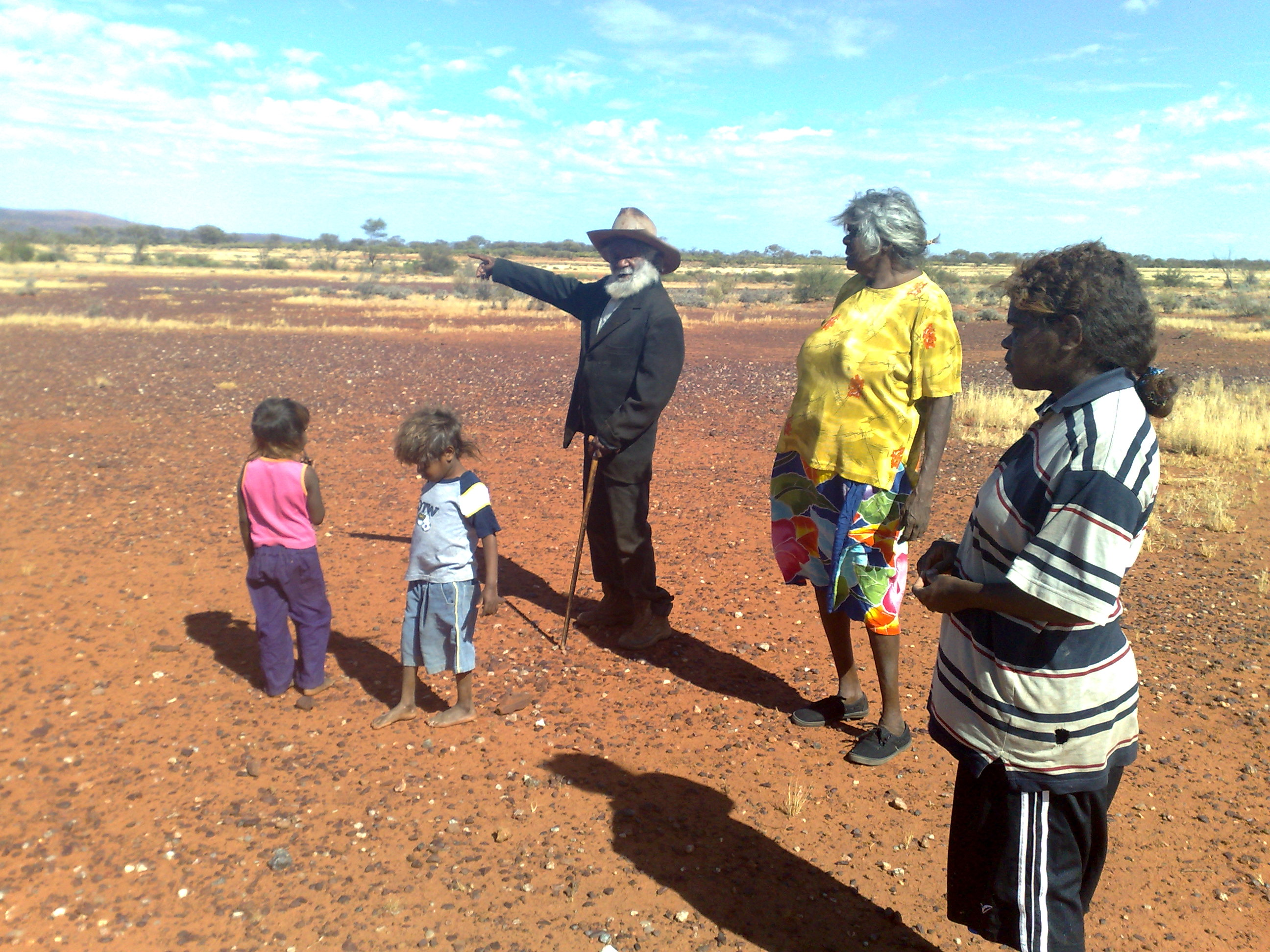 Tjuki tells a dreaming story about Manpi (pigeon) related to where boundaries of different tribes/language groups met.